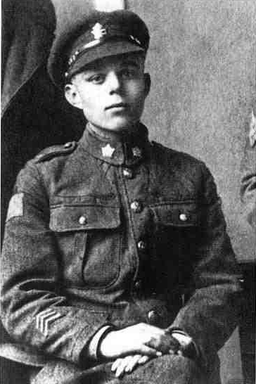 A Photograph of Billy Butlin, Shortly after Enlistment in the Canadian Expeditionary Force in 1915.